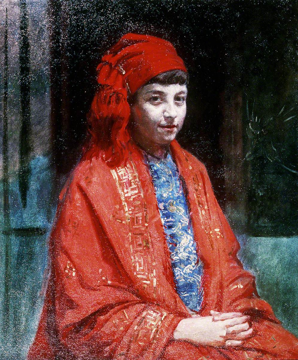 A painting from the Framed Works of Art collection at the National Library of wales.